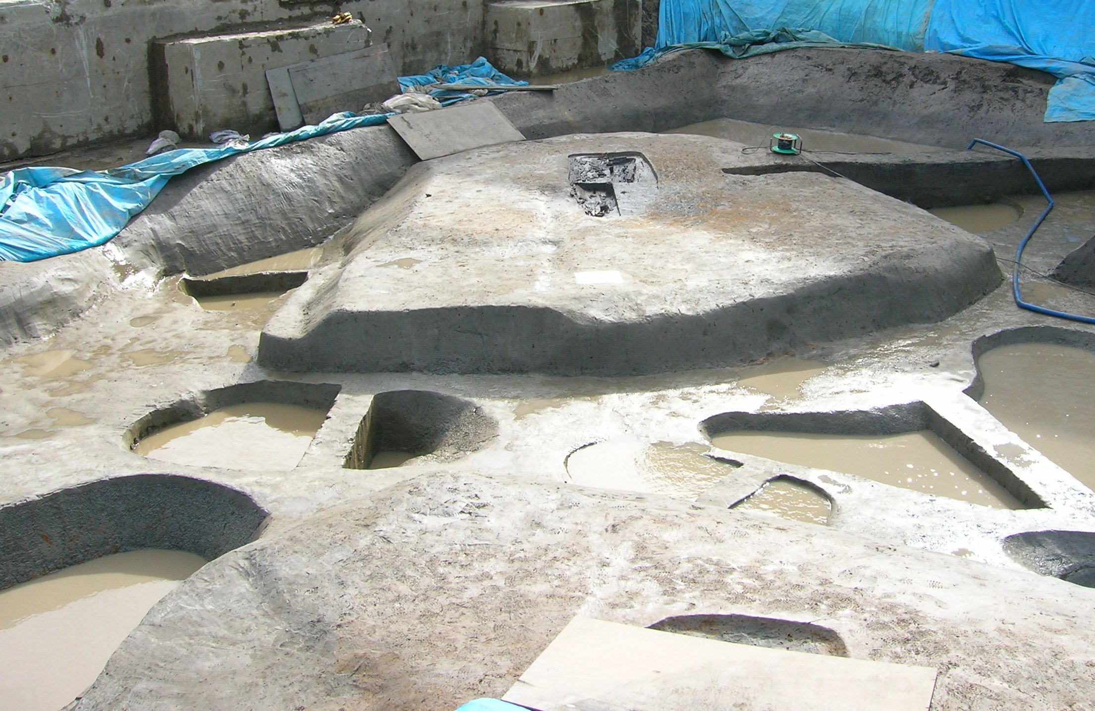 Ruins of Hōkei Shūkōbo (Tomb of the square surrounded by a moat), and Funagata mokkan (wooden coffin to have shape of boat). Hirate-cho ruins. Loc: Kita-ku, Nagoya city, Aichi Prefecture, Japan.